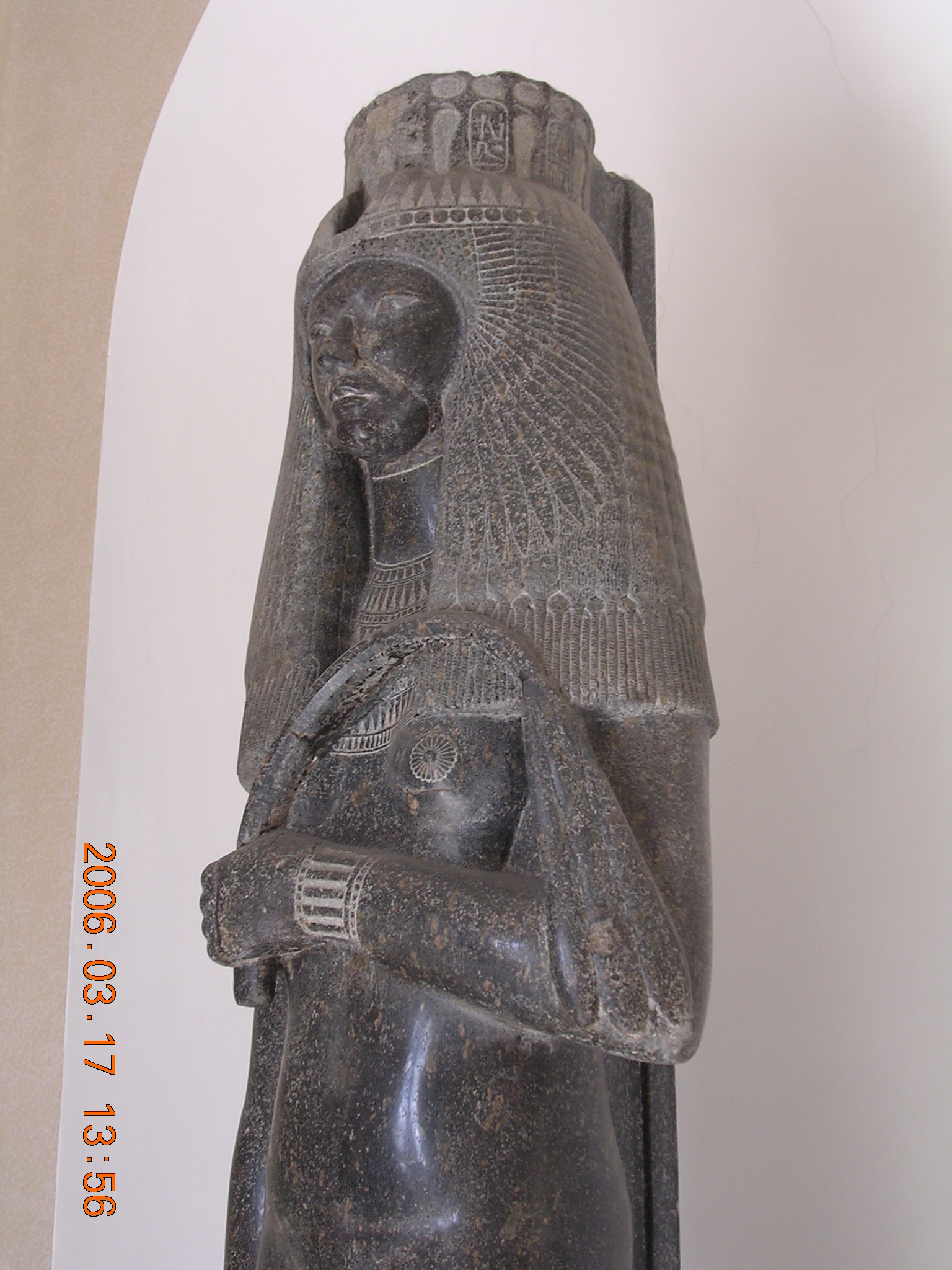 Queen Thuya of the 19th dynasty of Egypt